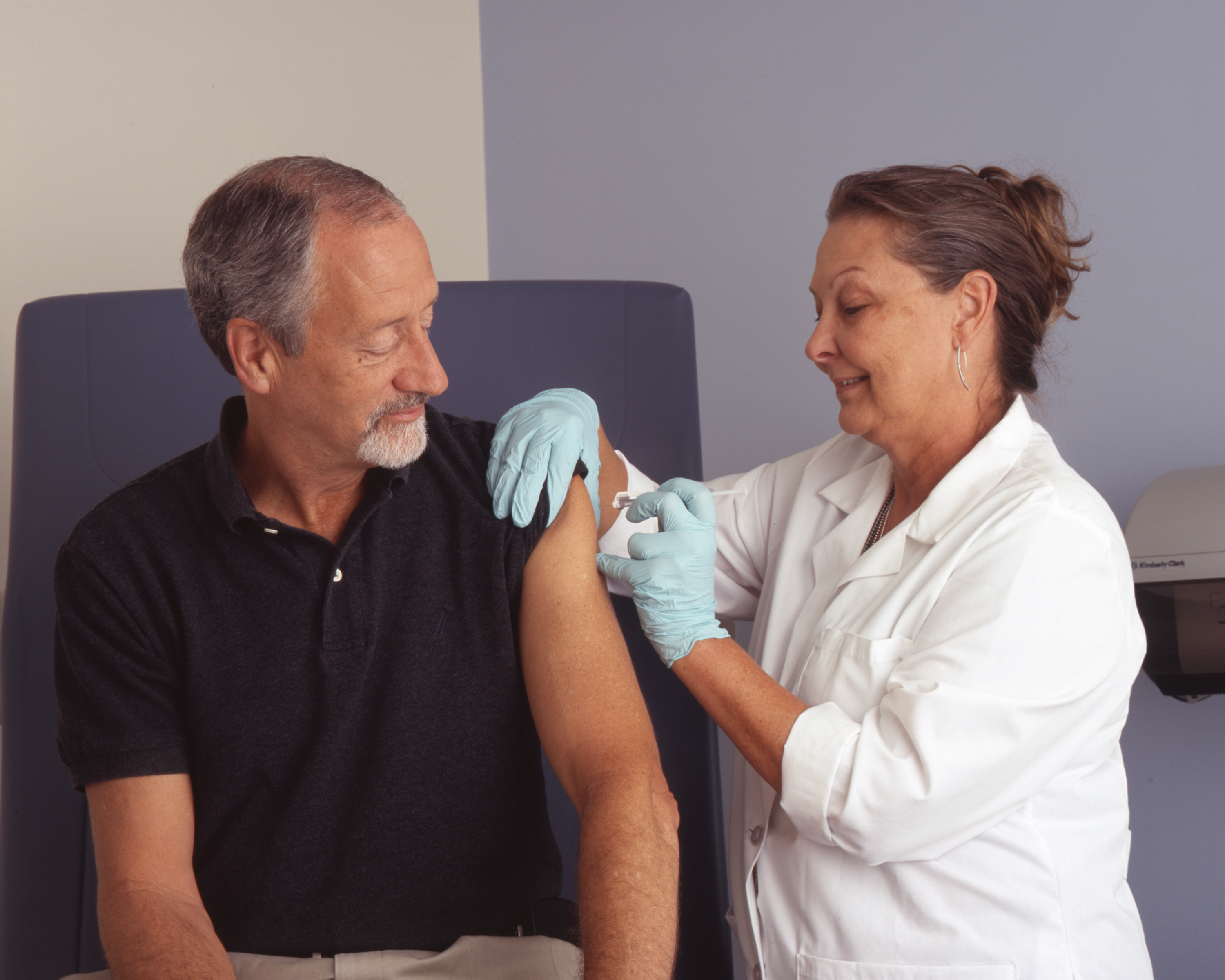 Title Nurse Administers a Vaccine Description A female nurse administers a vaccine into a male patient's arm as he watches. Topics/Categories People -- Adult People -- Health Professional and Patient Test or Procedure -- Lab Tests Type Color, Photo Source National Cancer Institute (NCI)